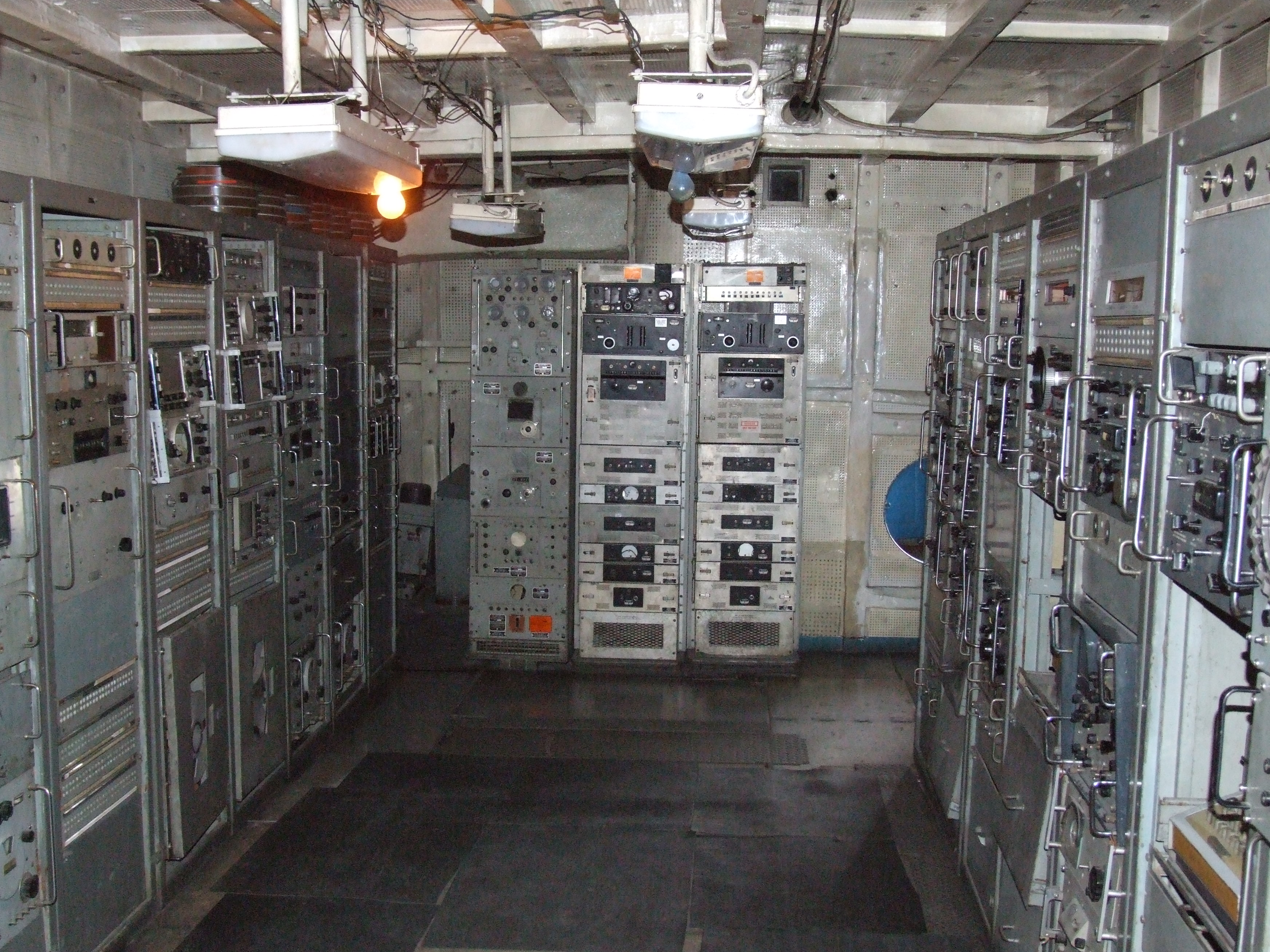 USS Pueblo (AGER-2) in Pyongyang, North Korea